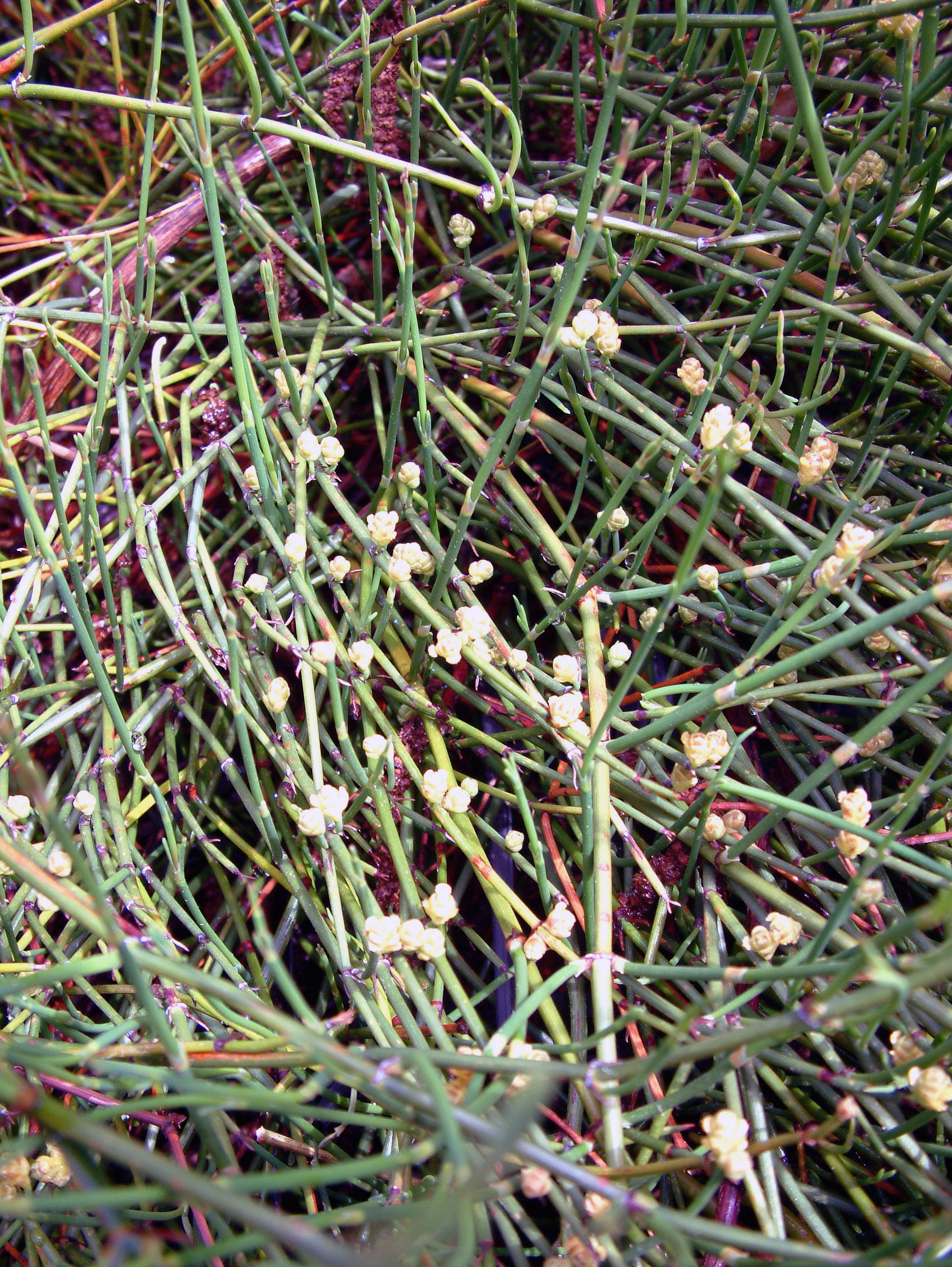 Ephedra sinica. Cultivated, locality not stated.